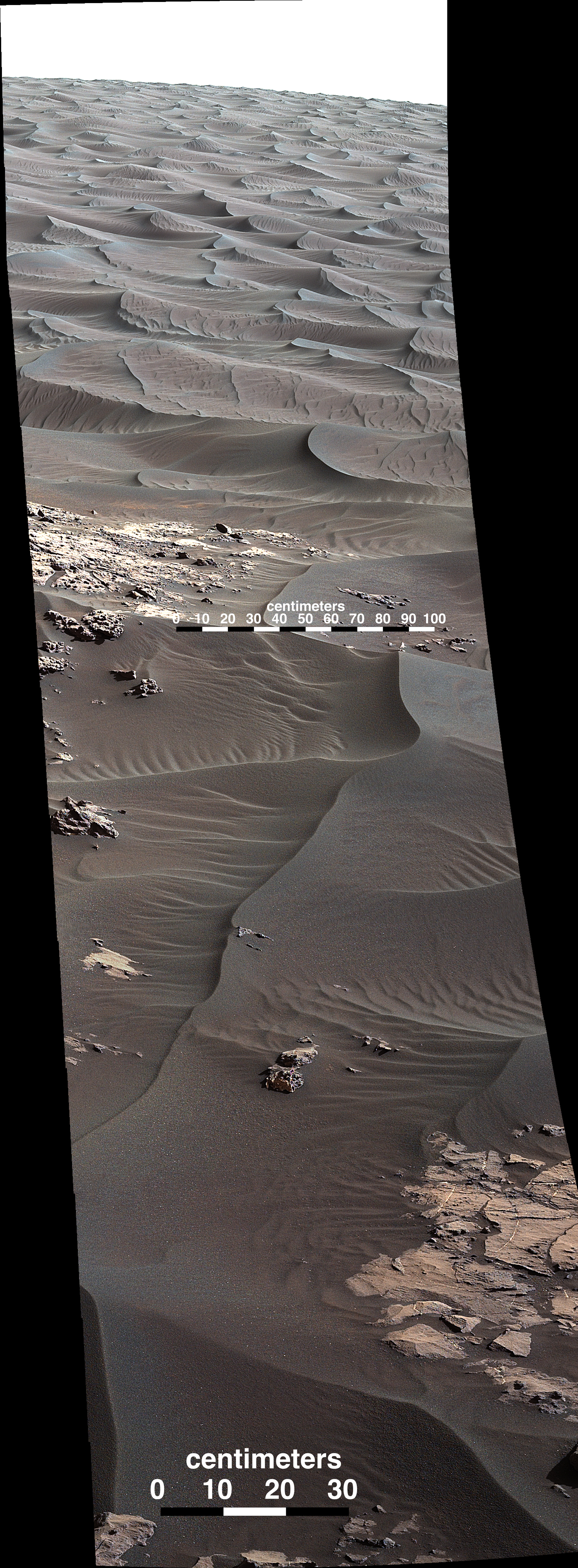 The rippled surface of the first Martian sand dune ever studied up close fills this view of "High Dune" from the Mast Camera (Mastcam) on NASA's Curiosity rover. This site is part of the "Bagnold Dunes" field along the northwestern flank of Mount Sharp. The dunes are active, migrating up to about one yard or meter per year. The component images of this mosaic view were taken on Nov. 27, 2015, during the 1,176th Martian day, or sol, of Curiosity's work on Mars. The scene is presented with a color adjustment that approximates white balancing, to resemble how the sand would appear under daytime lighting conditions on Earth. Figure A includes superimposed scale bars of 30 centimeters (1 foot) in the foreground and 100 centimeters (3.3 feet) in the middle distance.